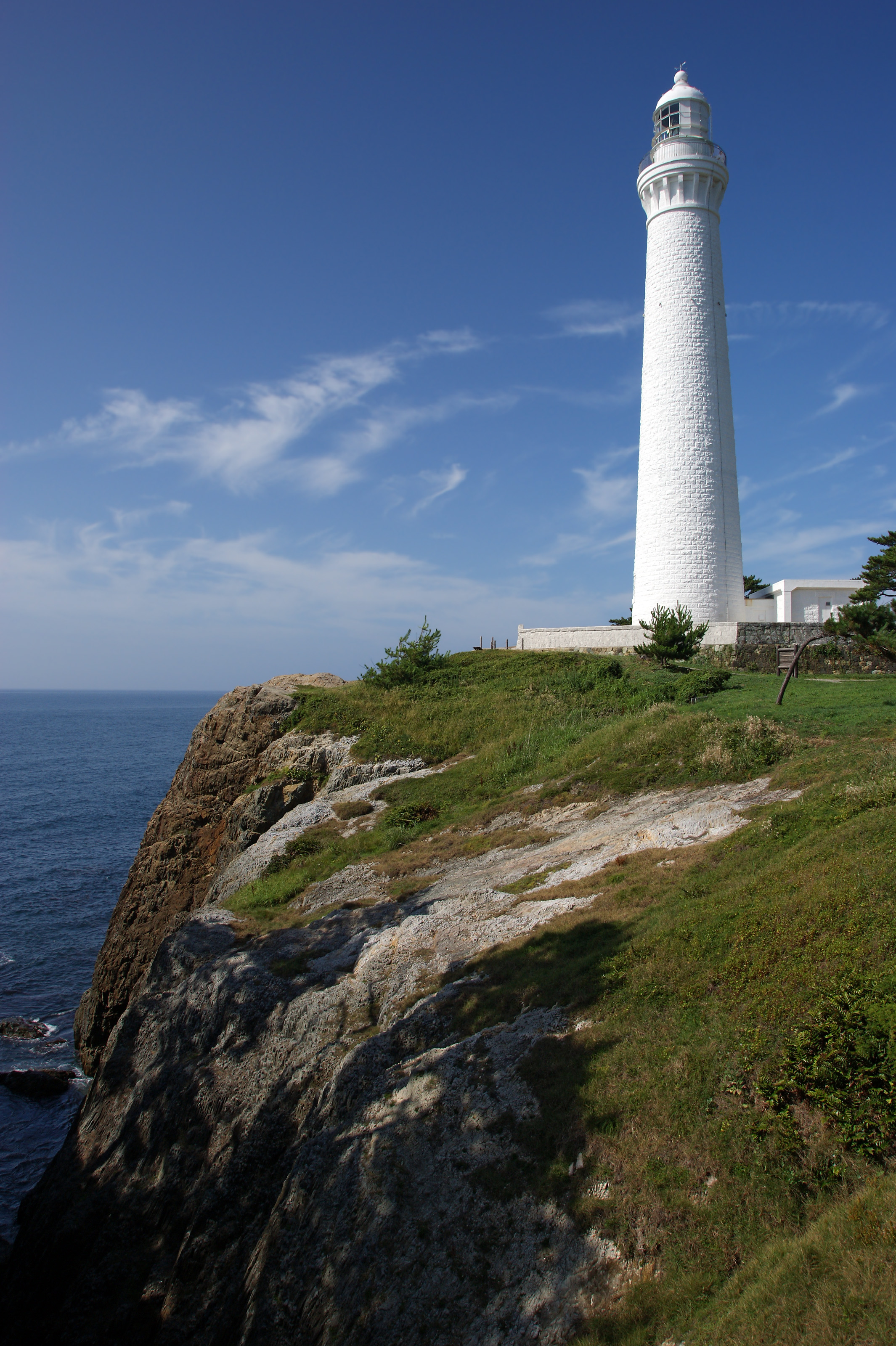 Hinomisaki Lighthouse in Izumo, Shimane prefecture, Japan